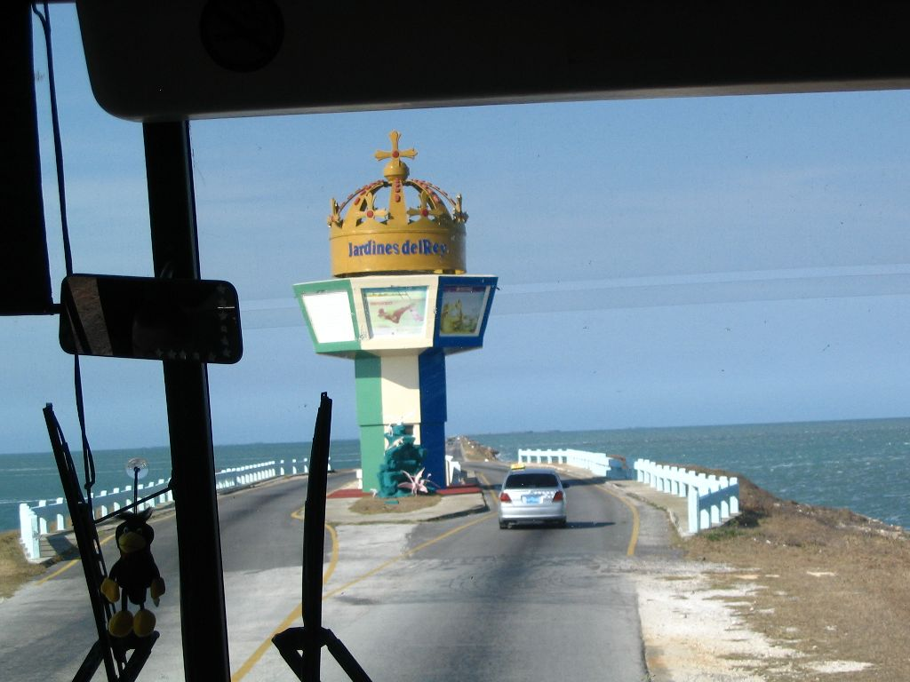 Causeway from the Cuba main island to Cayo Coco